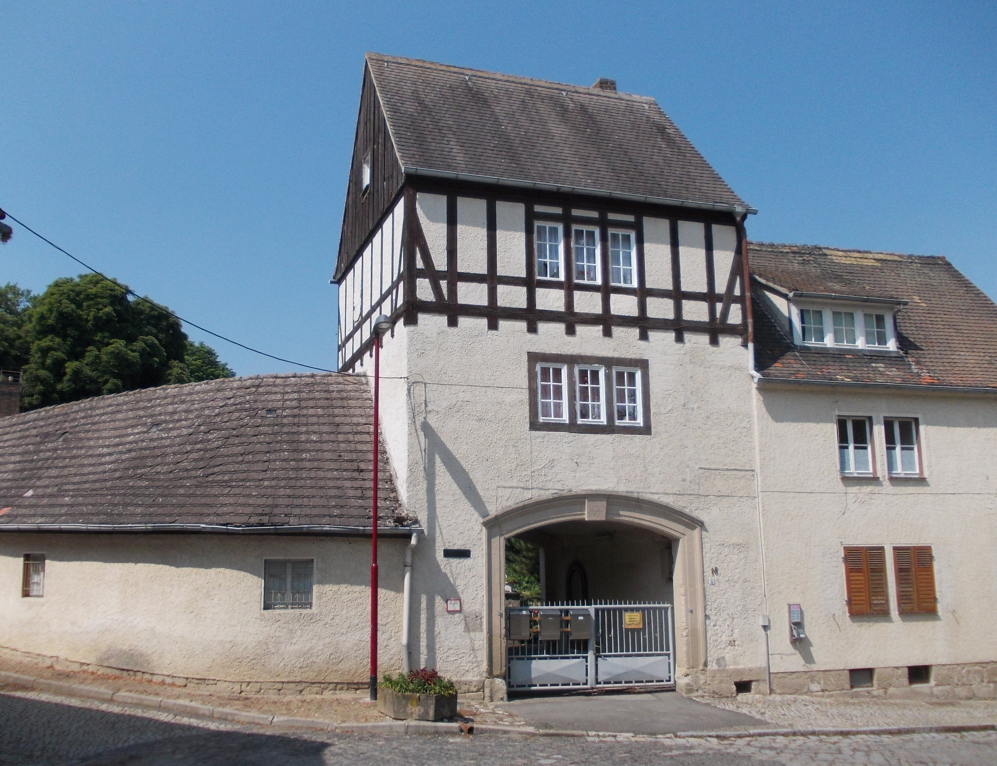 Entrance to the Villa Schultze-Naumburg in Saaleck (Naumburg, district: Burgenlandkreis, Saxony-Anhalt)